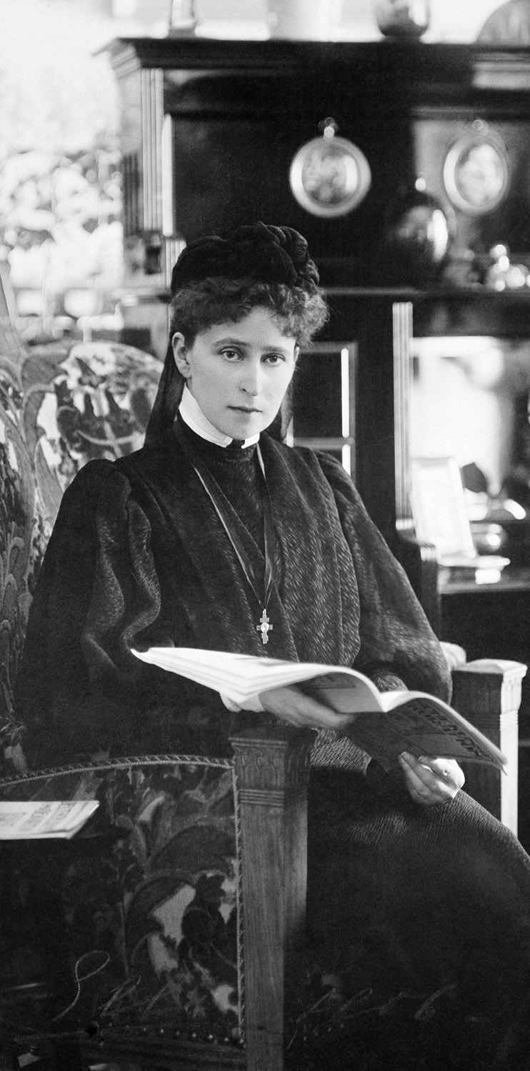 Grand Duchess Elizaveta Feodorovna